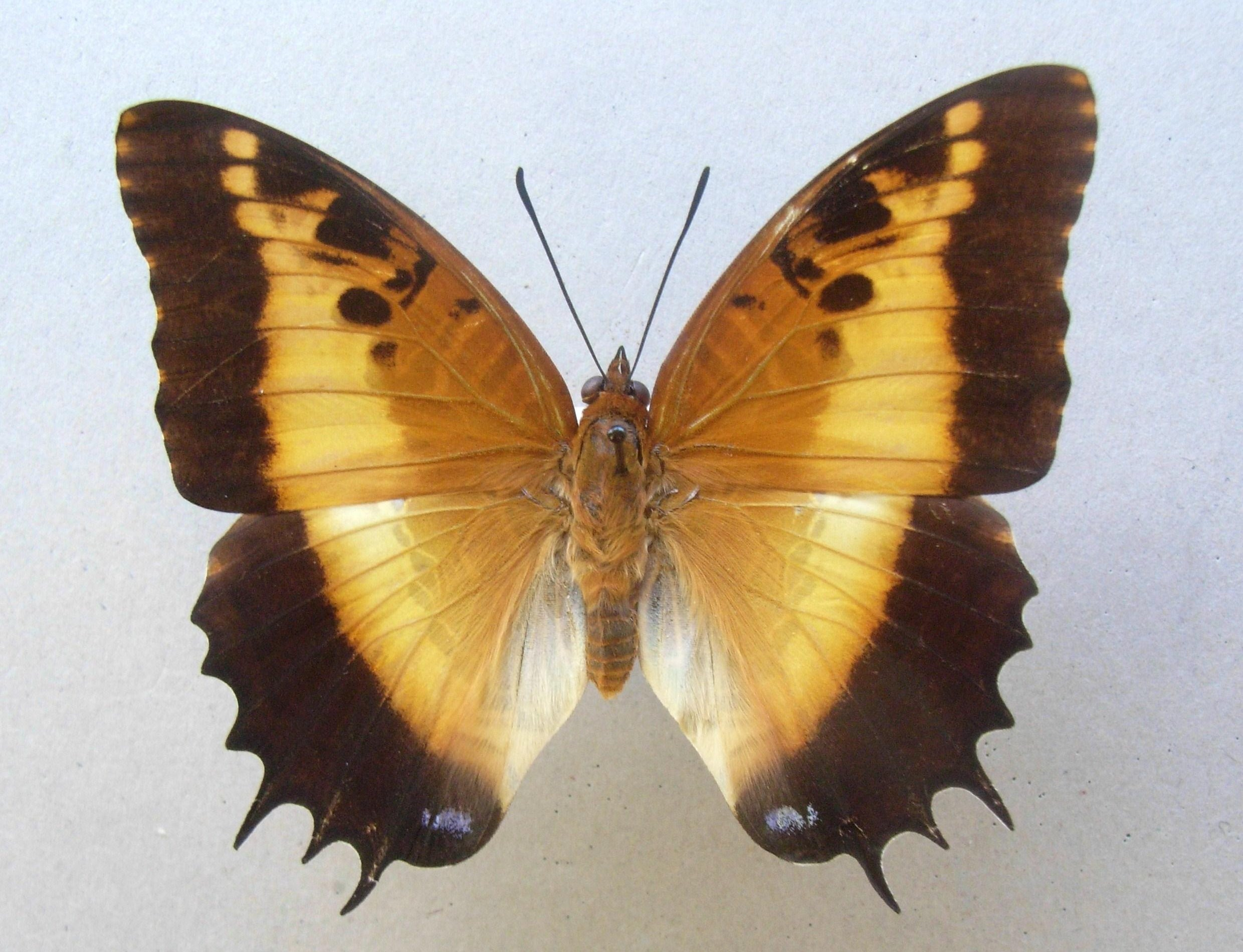 Charaxes pollux:Charaxinae:Nymphalidae Female